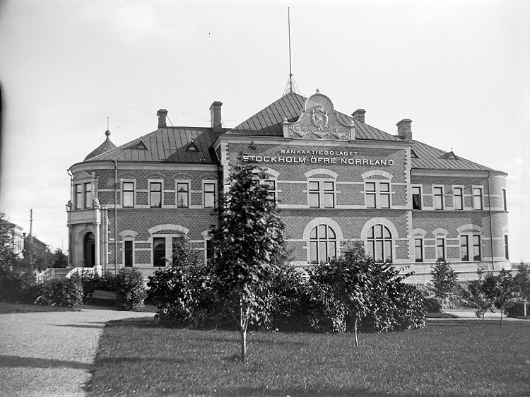 Joint-stock company Stockholm-Öfre Norrland Umeå office in 1902.